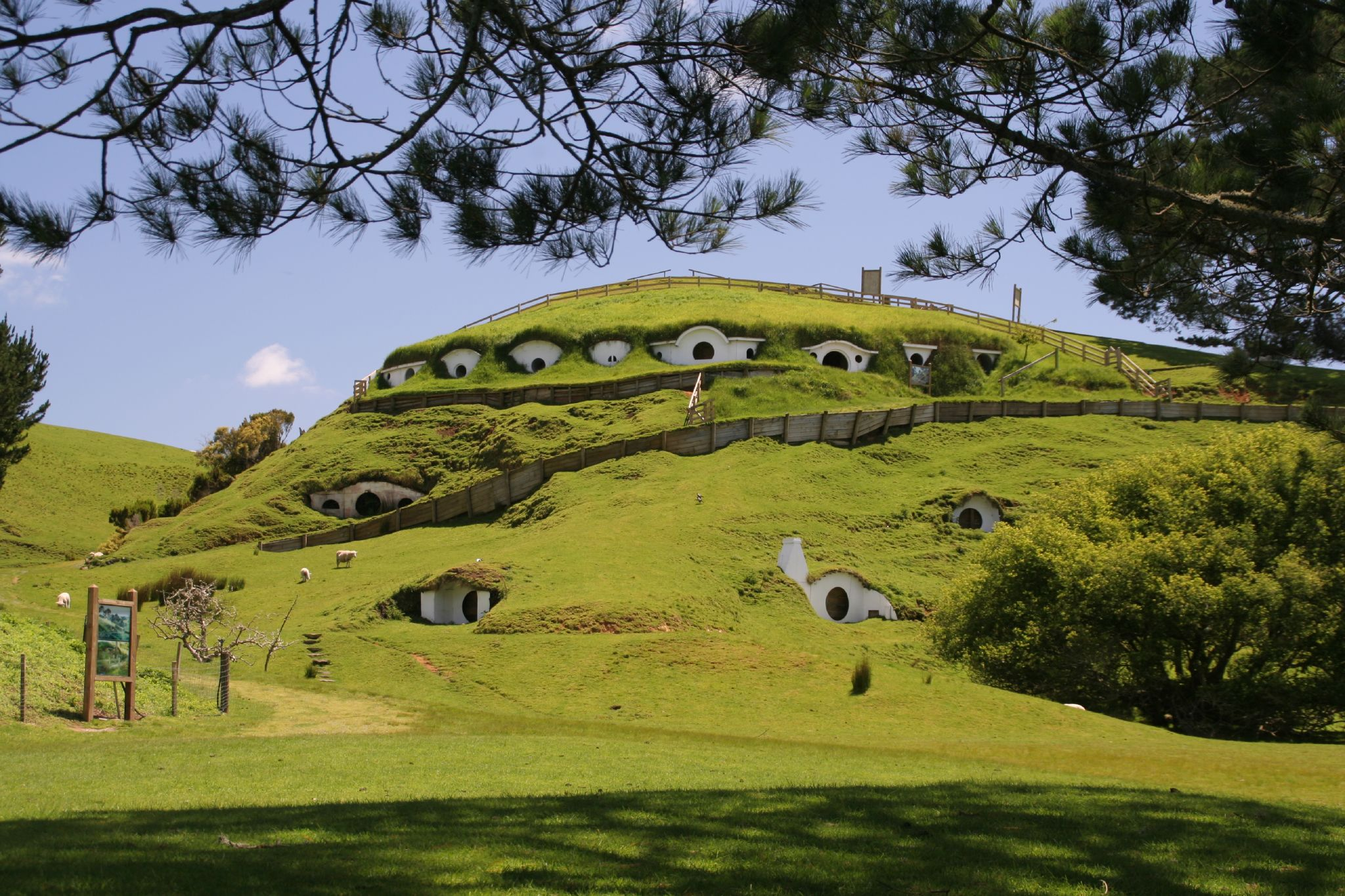 The location of Hobbiton, as used in the Lord of the Rings films. Near Matamata in New Zealand.